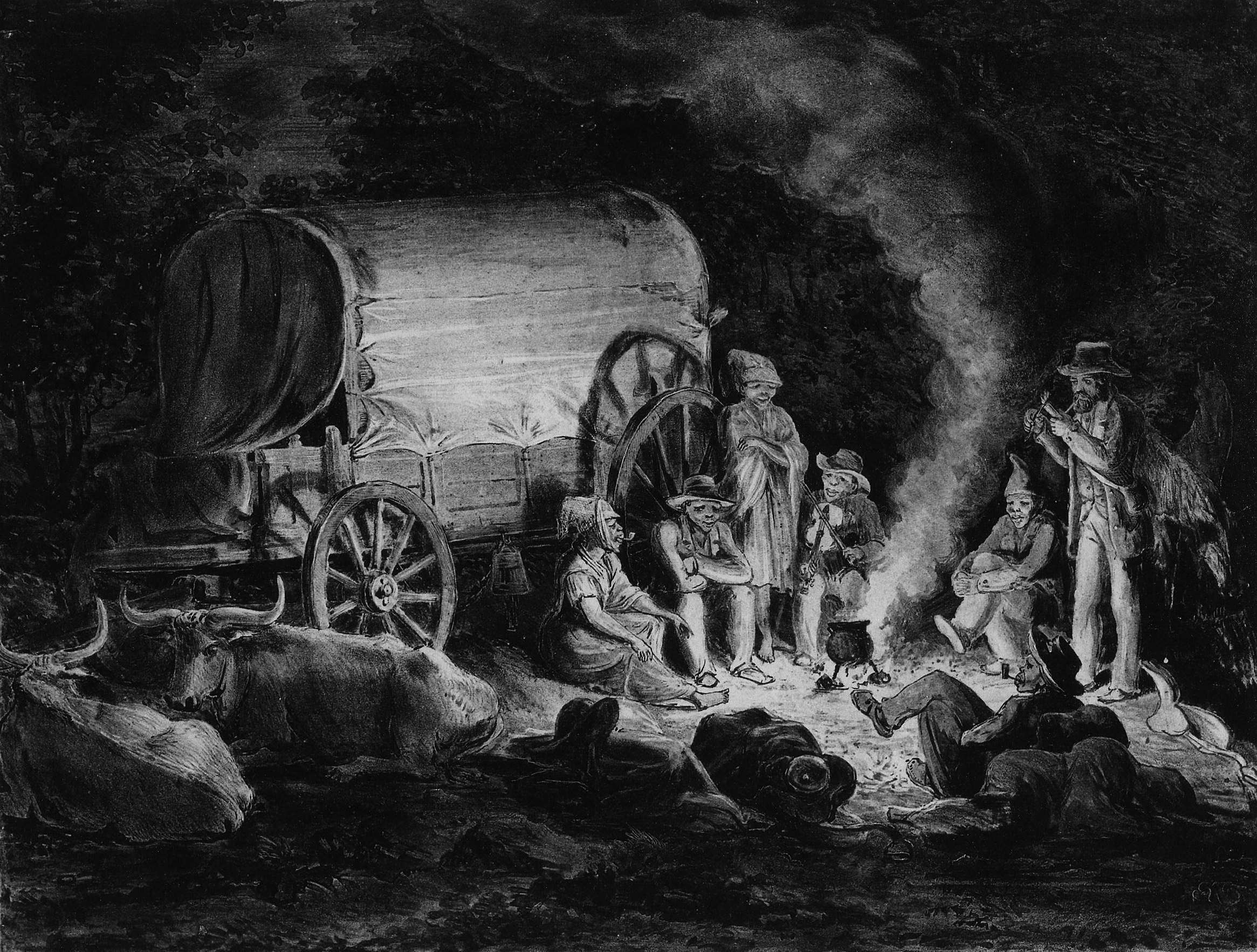 An outspan expedition in the Traansvaal.